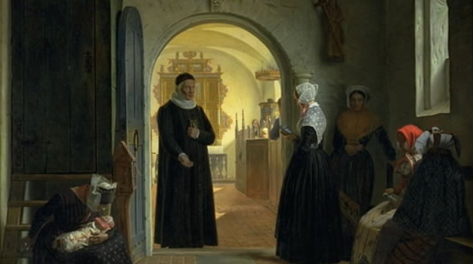 Christen Dalsgaard, 1860 "En kones højtidelige kirkegang efter barselfærd" Statens Museum for Kunst